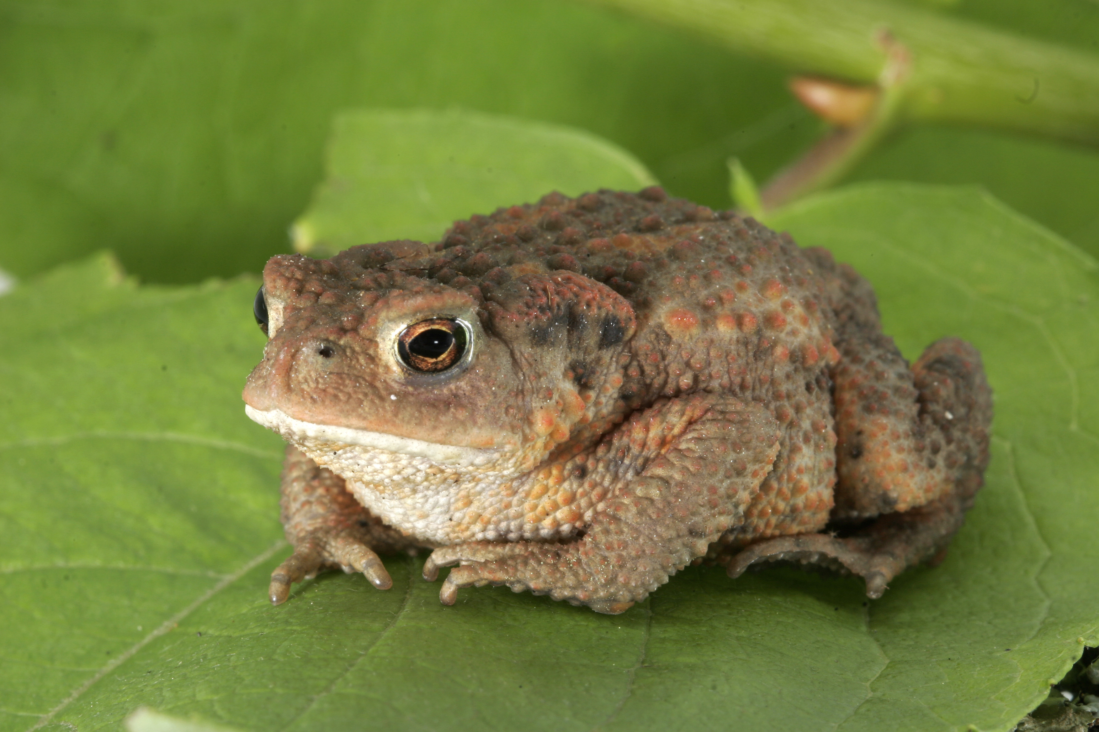 Common toad (Bufo bufo) in Bensheim (Germany)